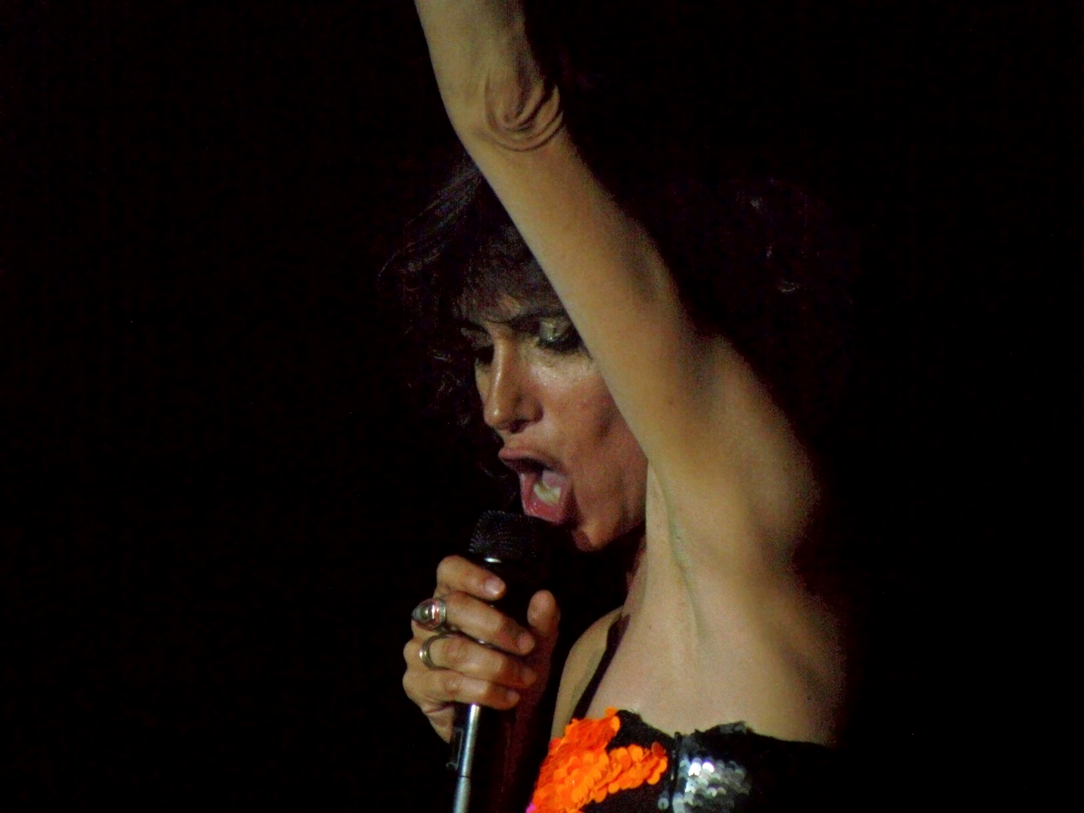 Giorgia Todrani - just known as Giorgia - on the stage of her concert in Milan, 19th of July 2012